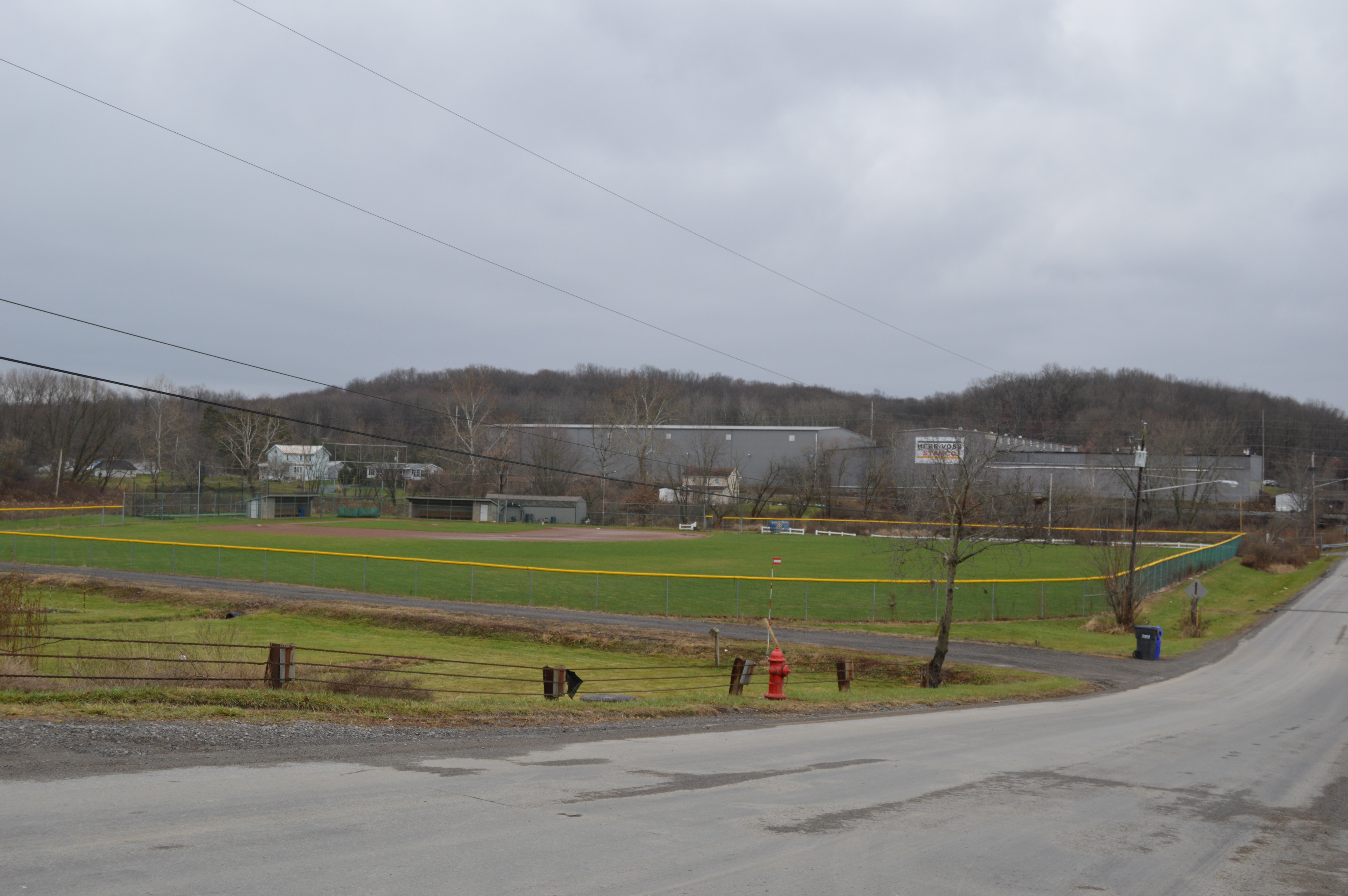 A ballfield and factory in Callery, Pennsylvania, United States. Picture looks west-southwest along Center Street.